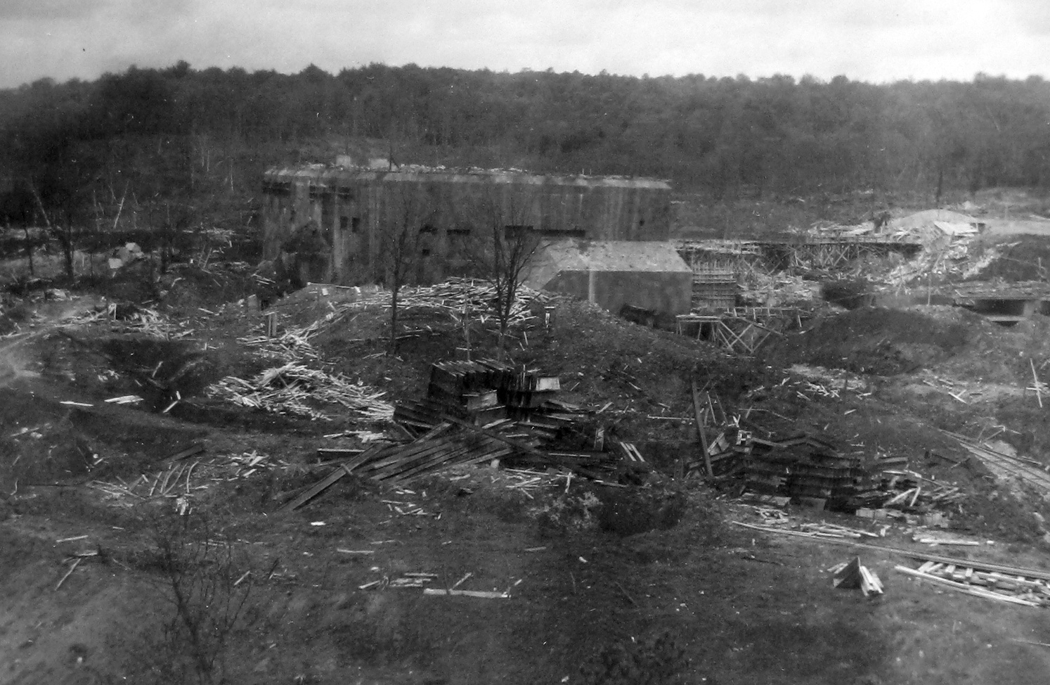 Low-level reconnaissance photograph of the Watten site taken from a Mosquito of 540 Squadron RAF.